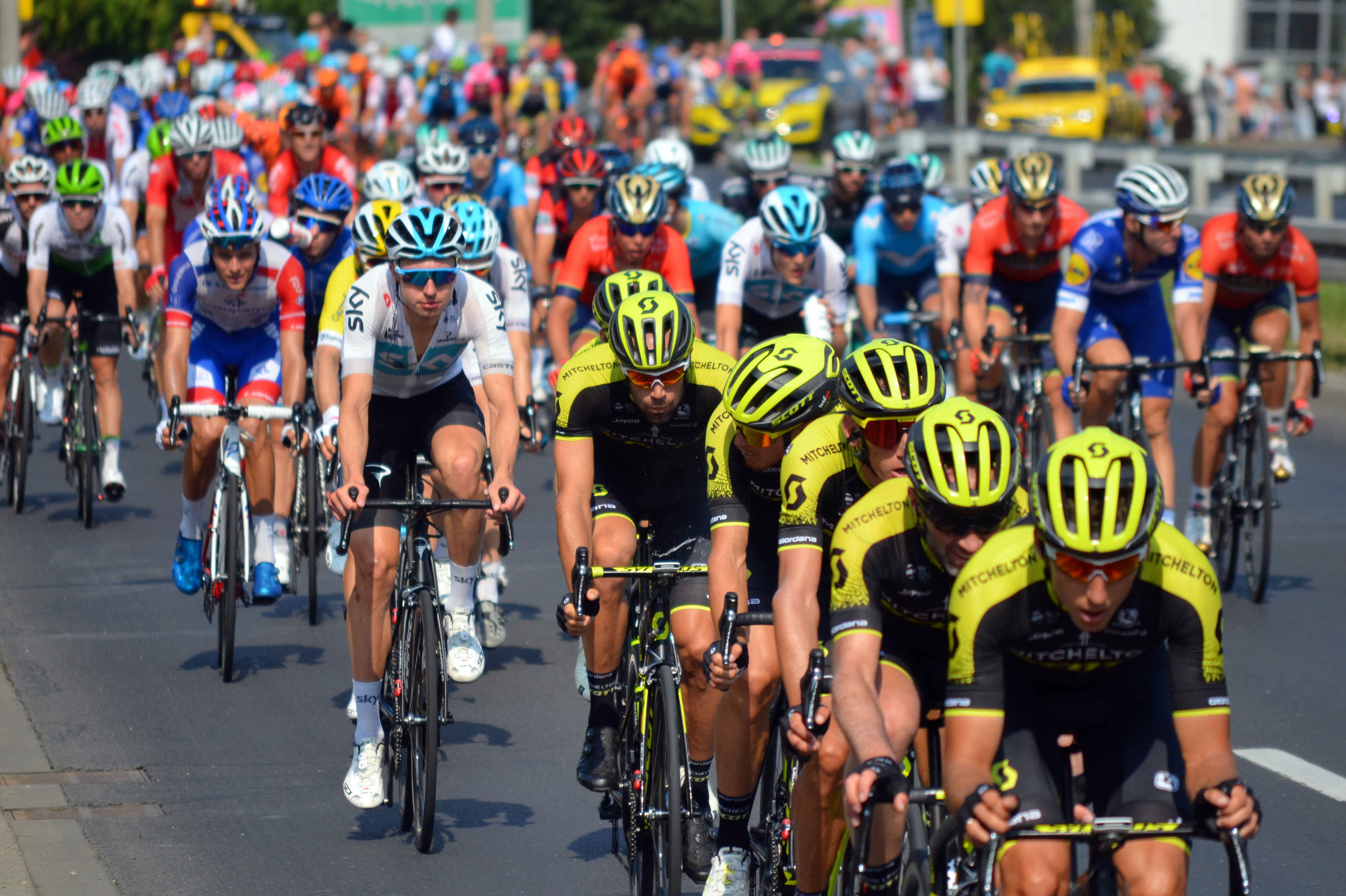 Tour de Pologne 2018